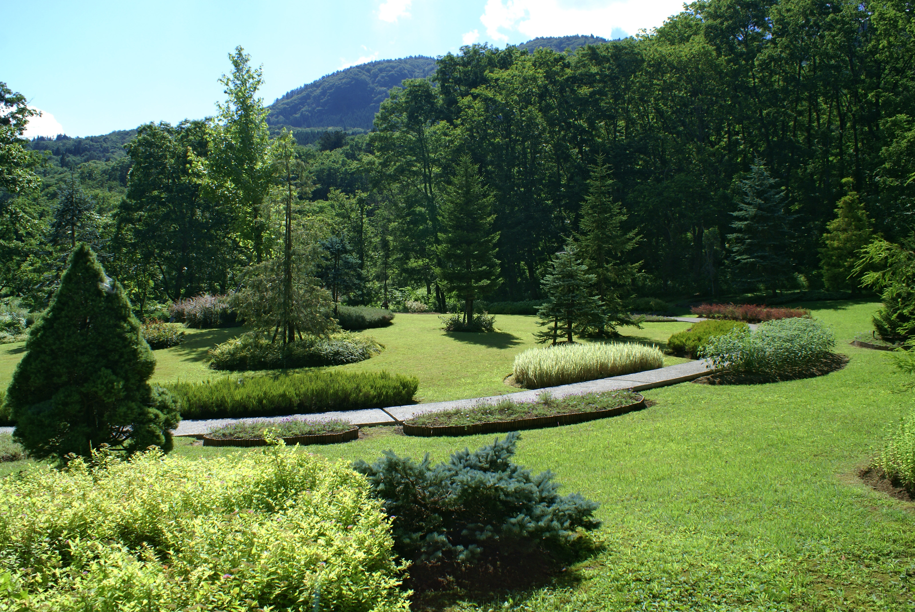 Tajima Plateau Botanical Gardens (Torokawadaira) in Kami, Hyogo prefecture, Japan